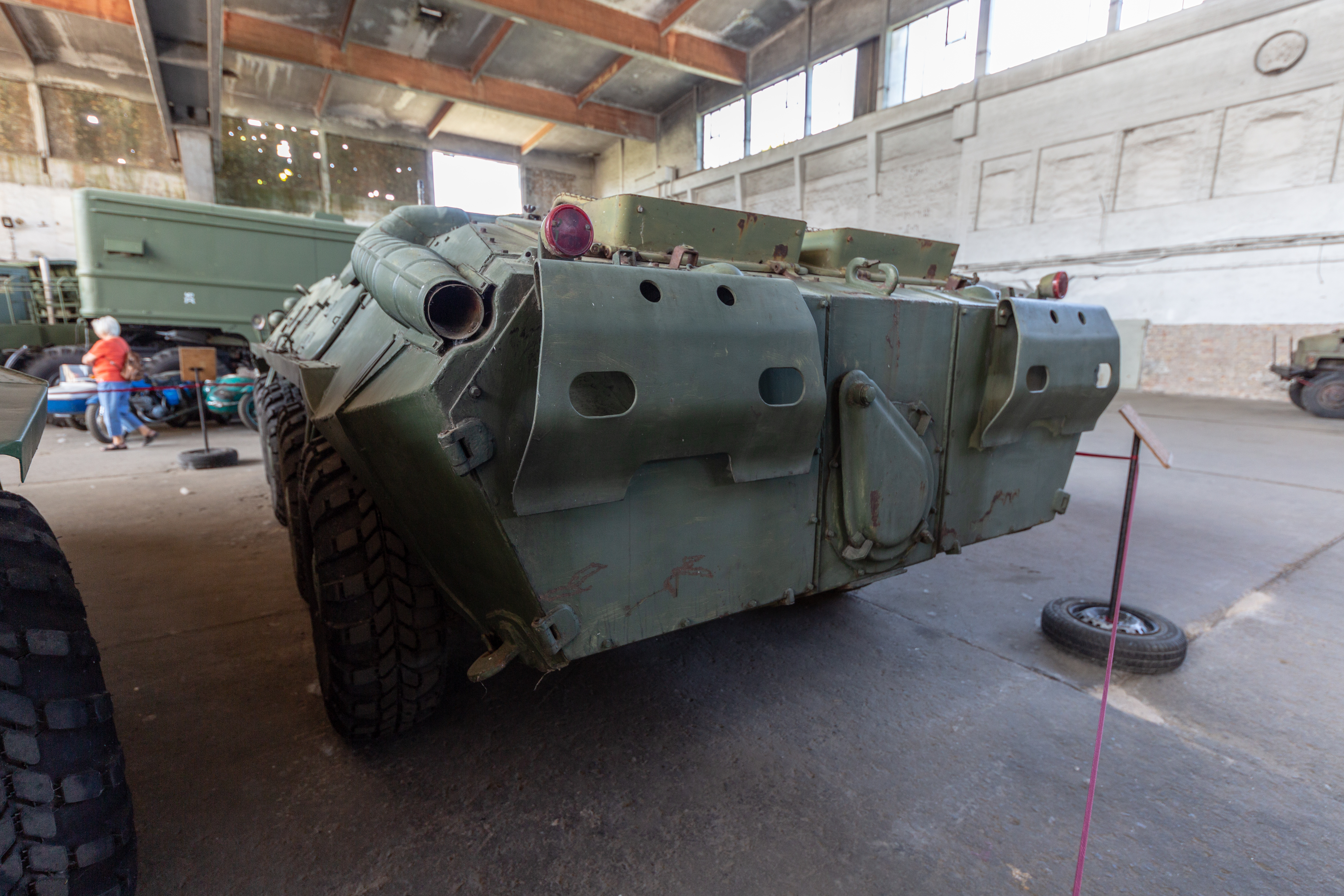 Pfingsttreffen Pütnitz 2018